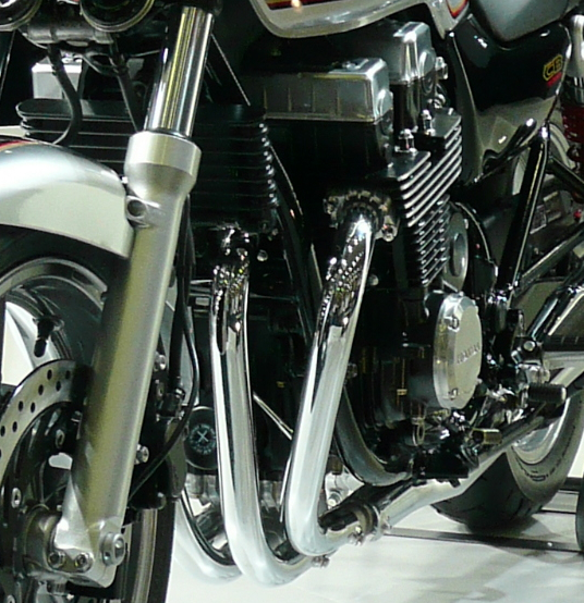 Honda CB750 Special(2007 Tokyo Motor Show)